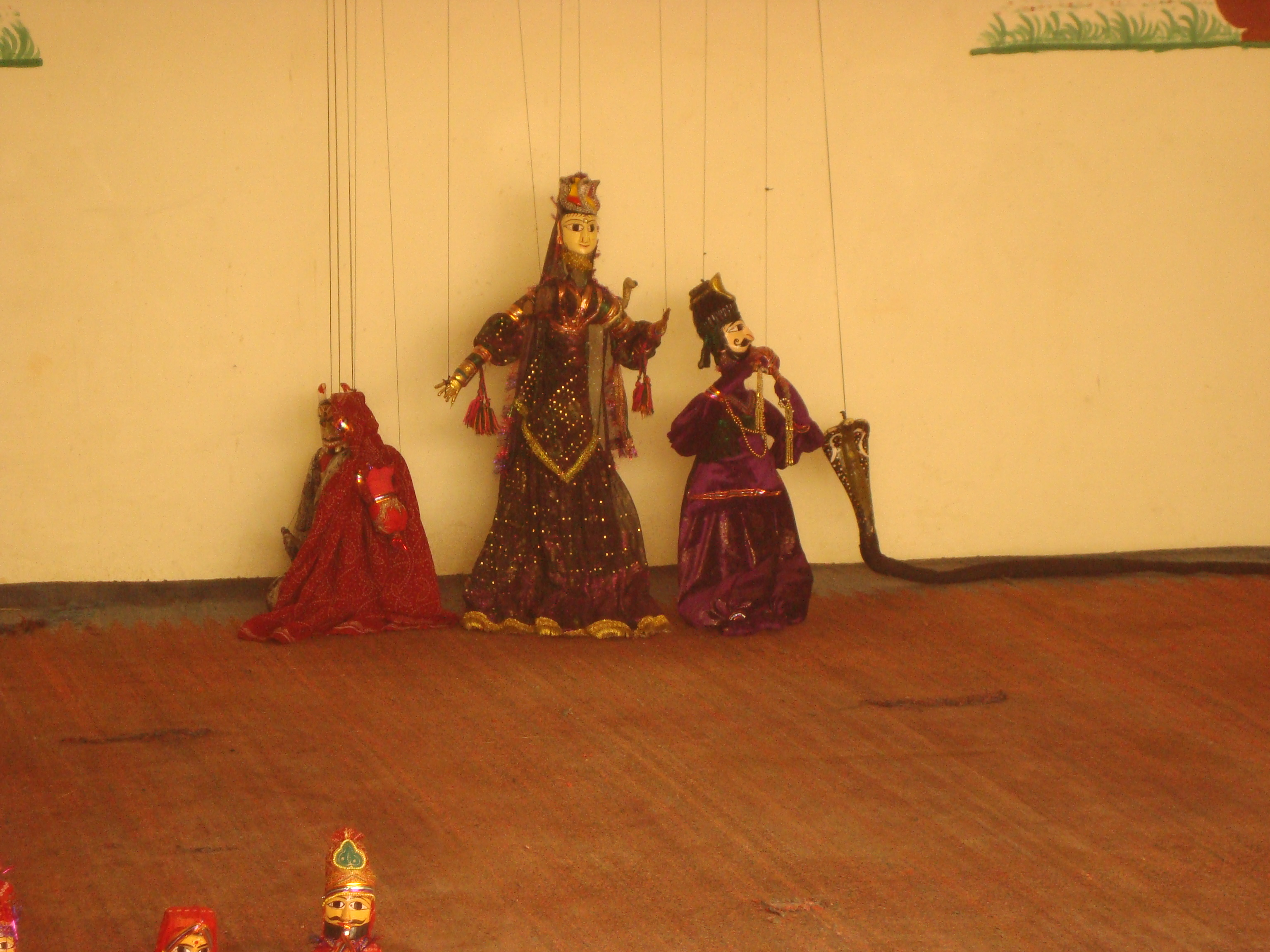 Puppet theatre of Jaigarh Fort